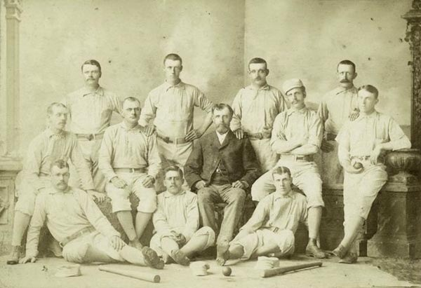 Paul Hines-CF, George Wright-SS, Mike McGeary-2B, John Ward-P, Jim O’Rourke-RF, Bobby Mathews-P, Emil Gross-C, Tom York-LF, Joe Start-1B, Lew Brown-C, Bill Hague-3B